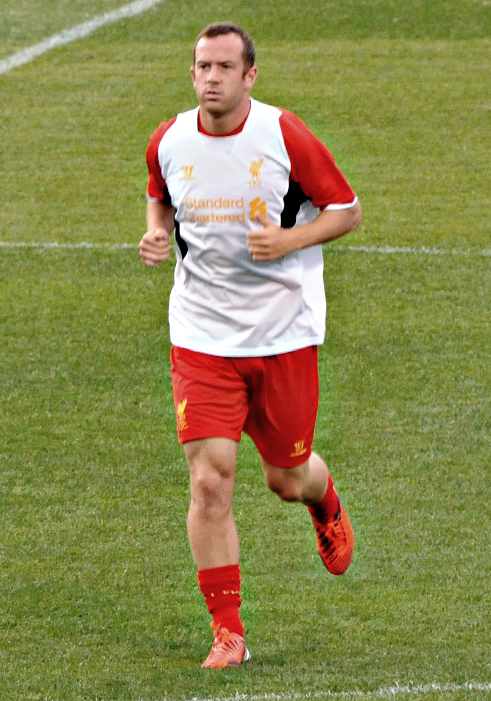 Charlie Adam warming up